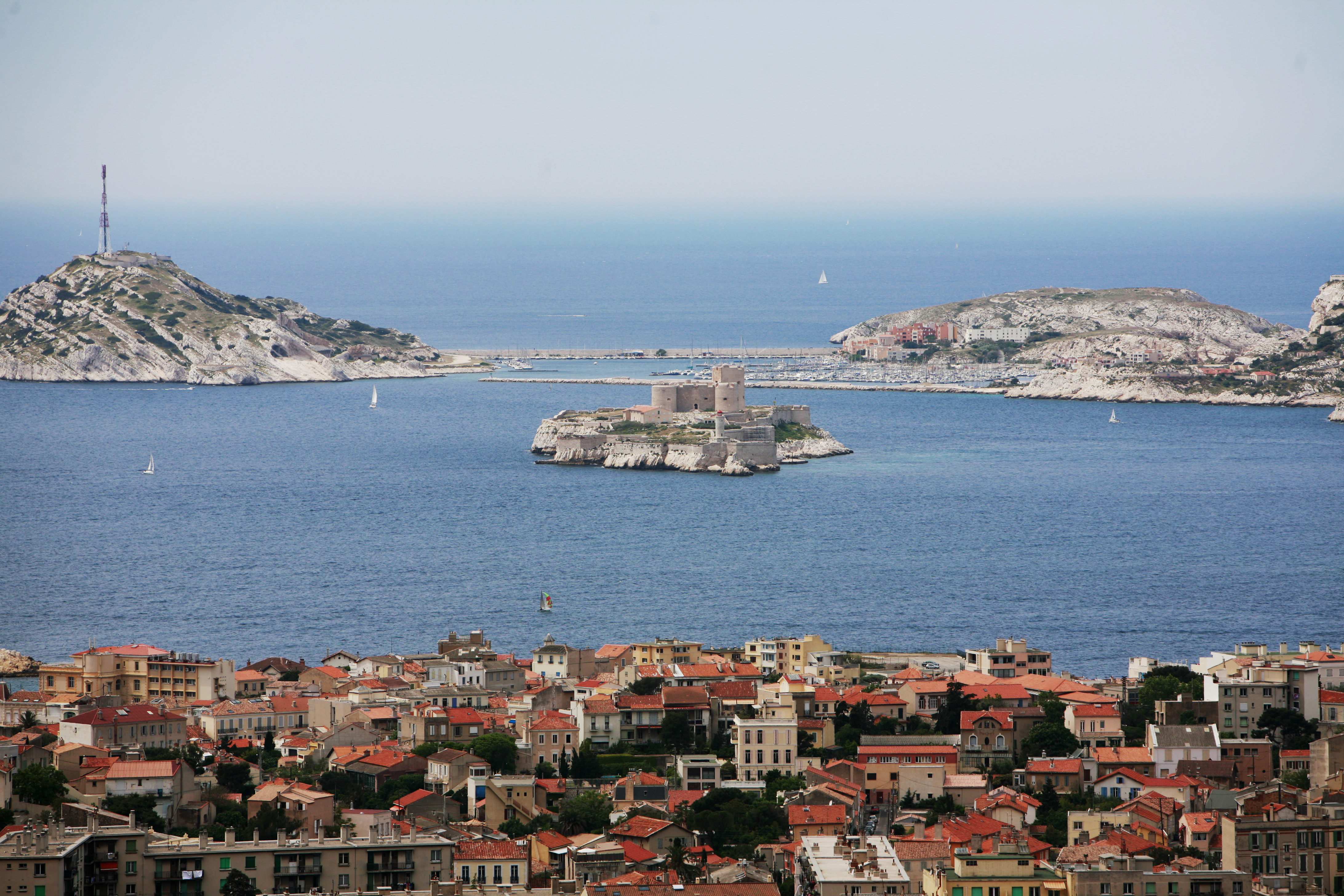 Château d'If, Marseille.